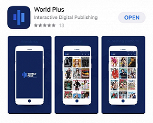 World Plus App